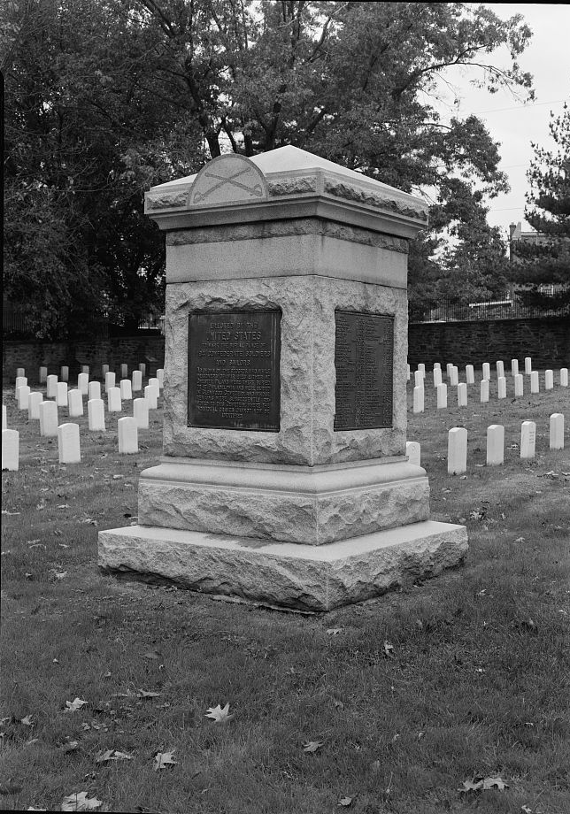 Commemorates 184 Confederate prisoners-of-war who died in Philadelphia-area hospitals and camps during the Civil War.